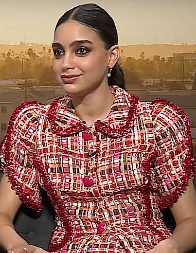 Melissa Barrera Screenshot 2